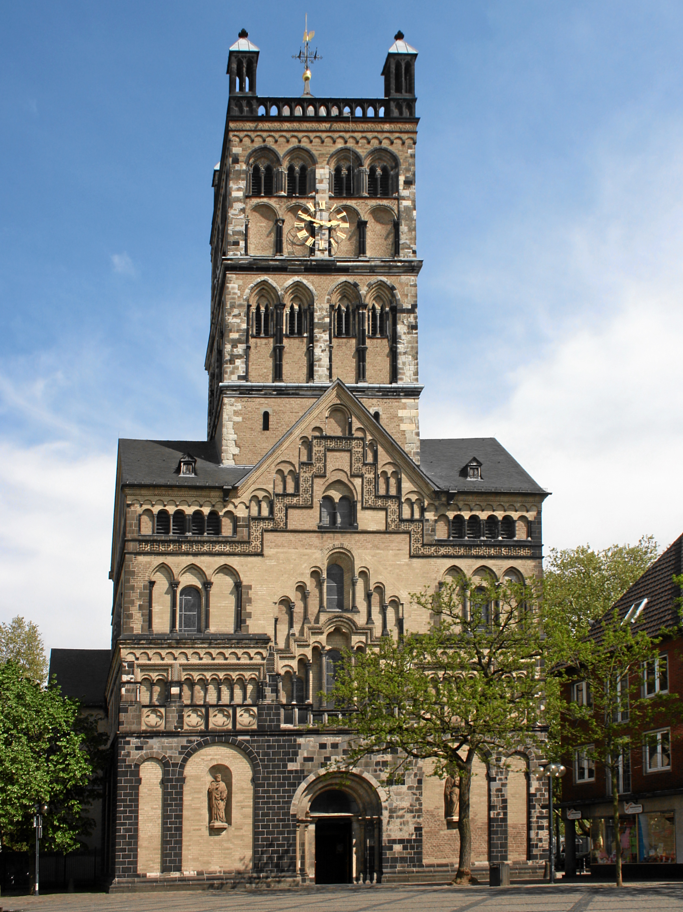 Neuss, Germany. Roman-catholic church Saint Quirinus, exterior from West.